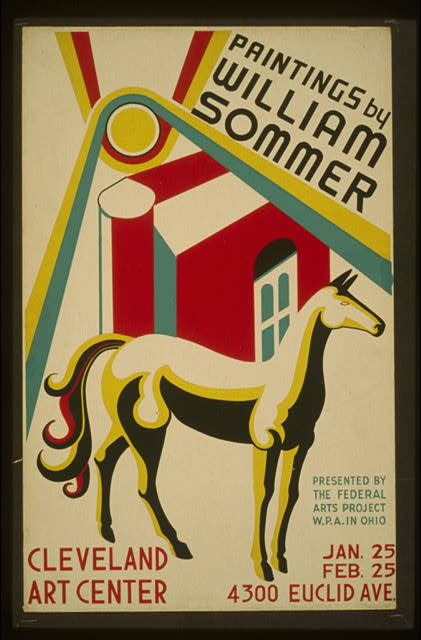 WPA poster of William Sommer paintings exhibition, Cleveland, Ohio, 1938